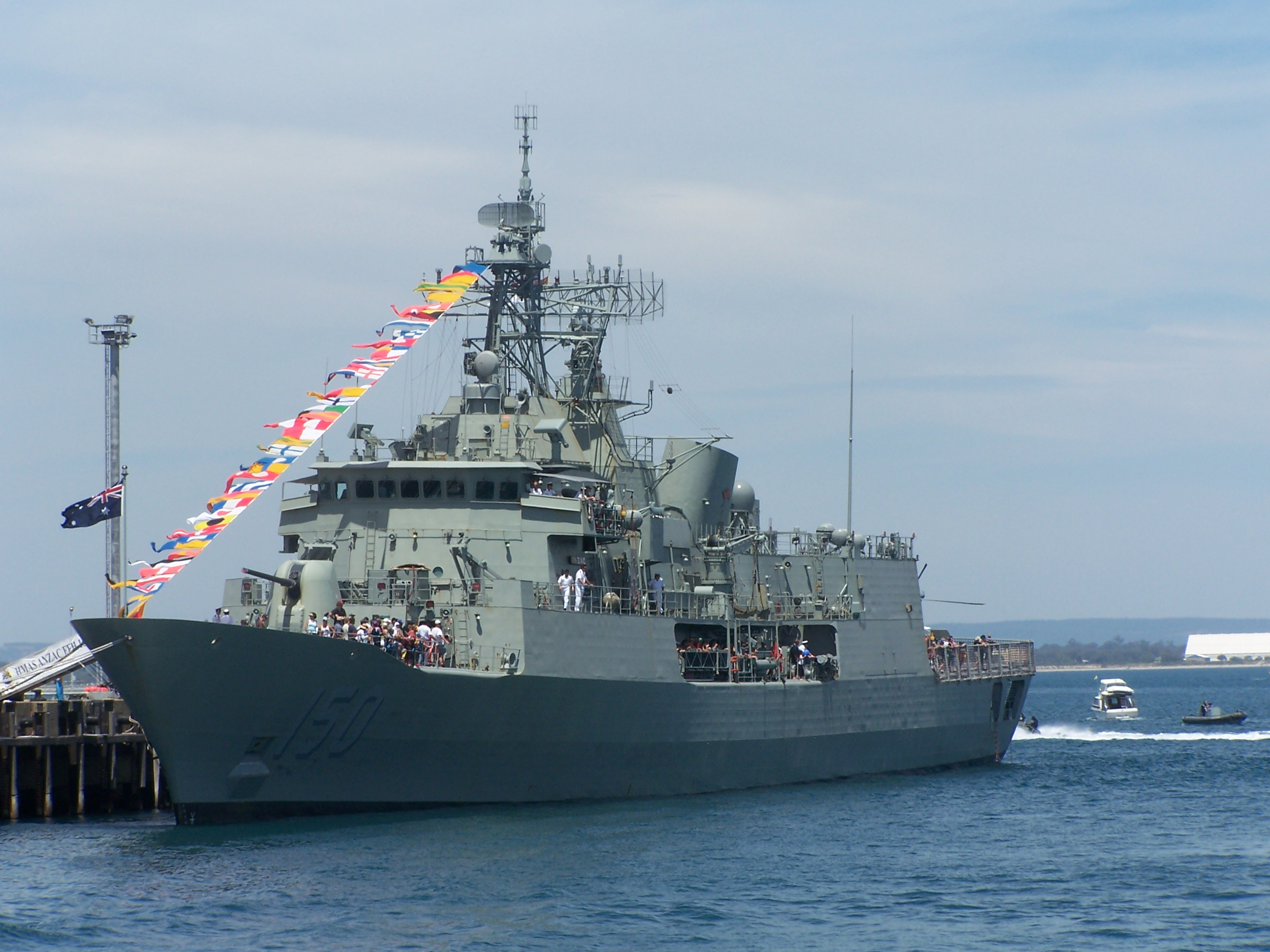 HMAS Stirling open day HMAS ANZAC